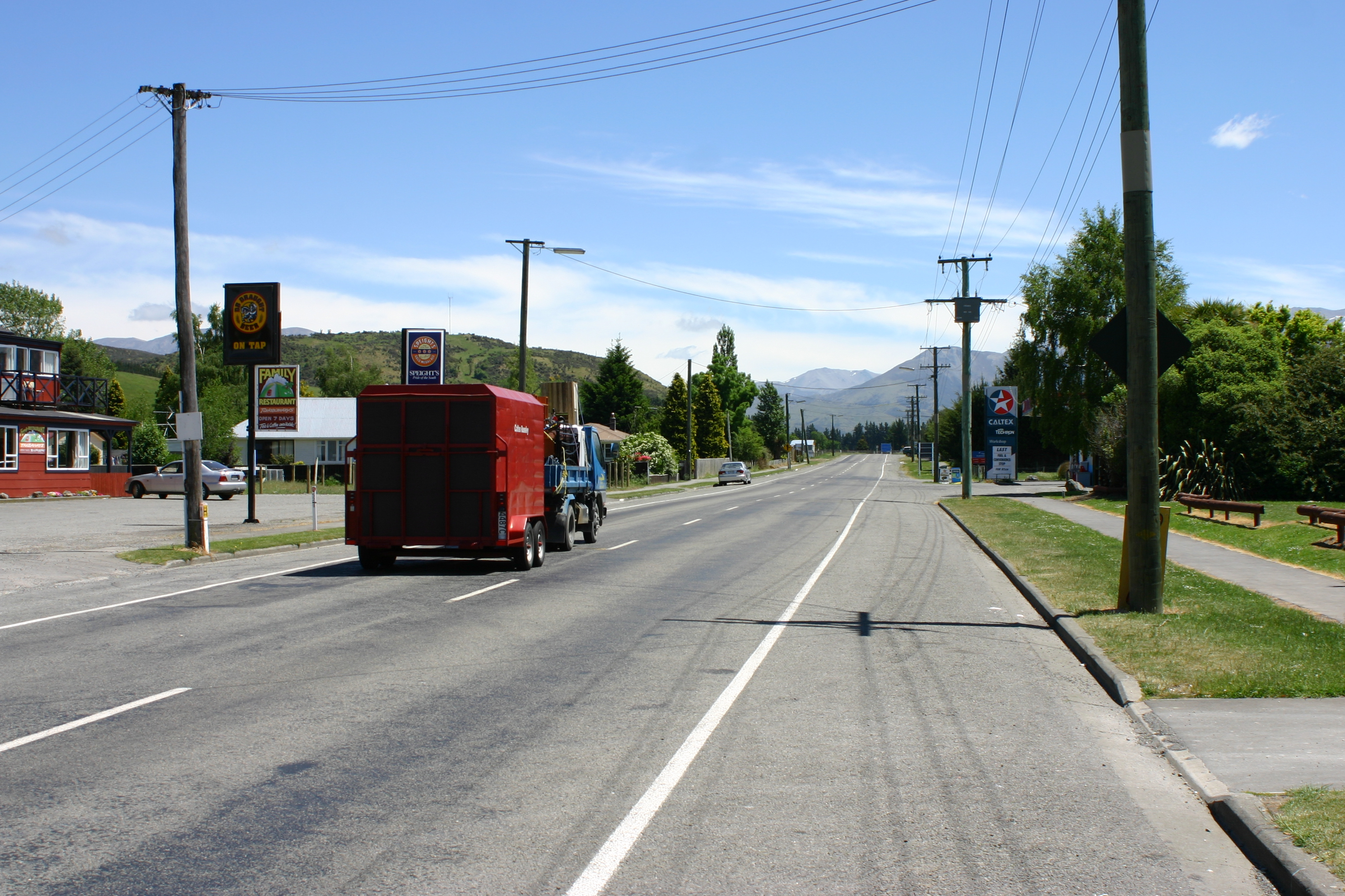 Not the Simpsons' town, but the real life town in Canterbury.